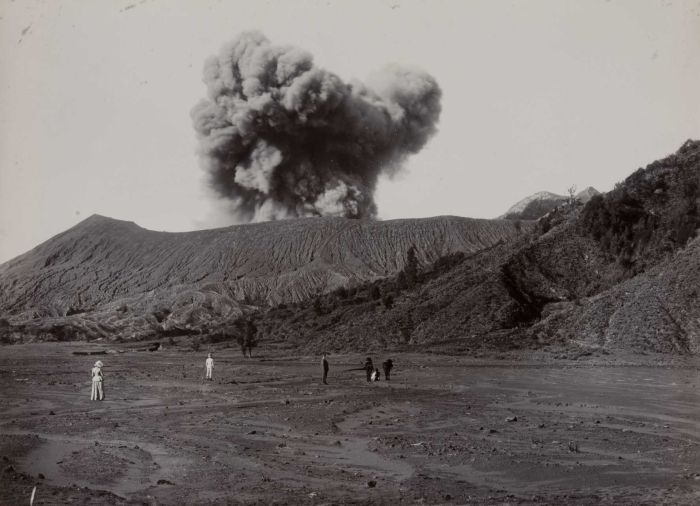 Peiple in the Sand Sea watching an eruption of the Bromo volcano